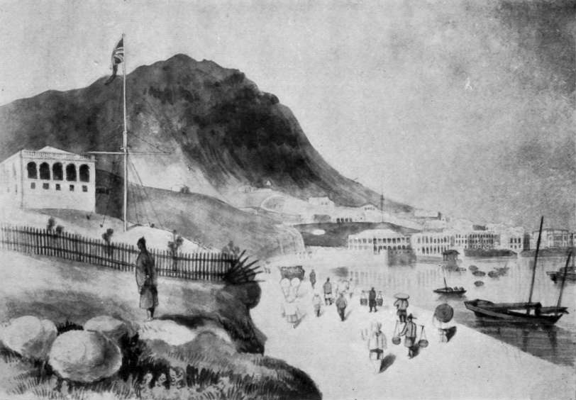 Sir Henry Pottinger's house in Victoria, Hong Kong, 1845.